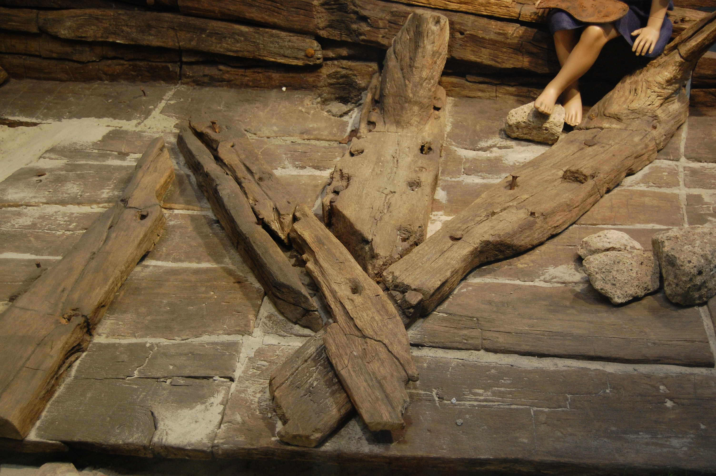 Ancient Roman boat Woerden 7, exhibited in underground parking garage in Woerden